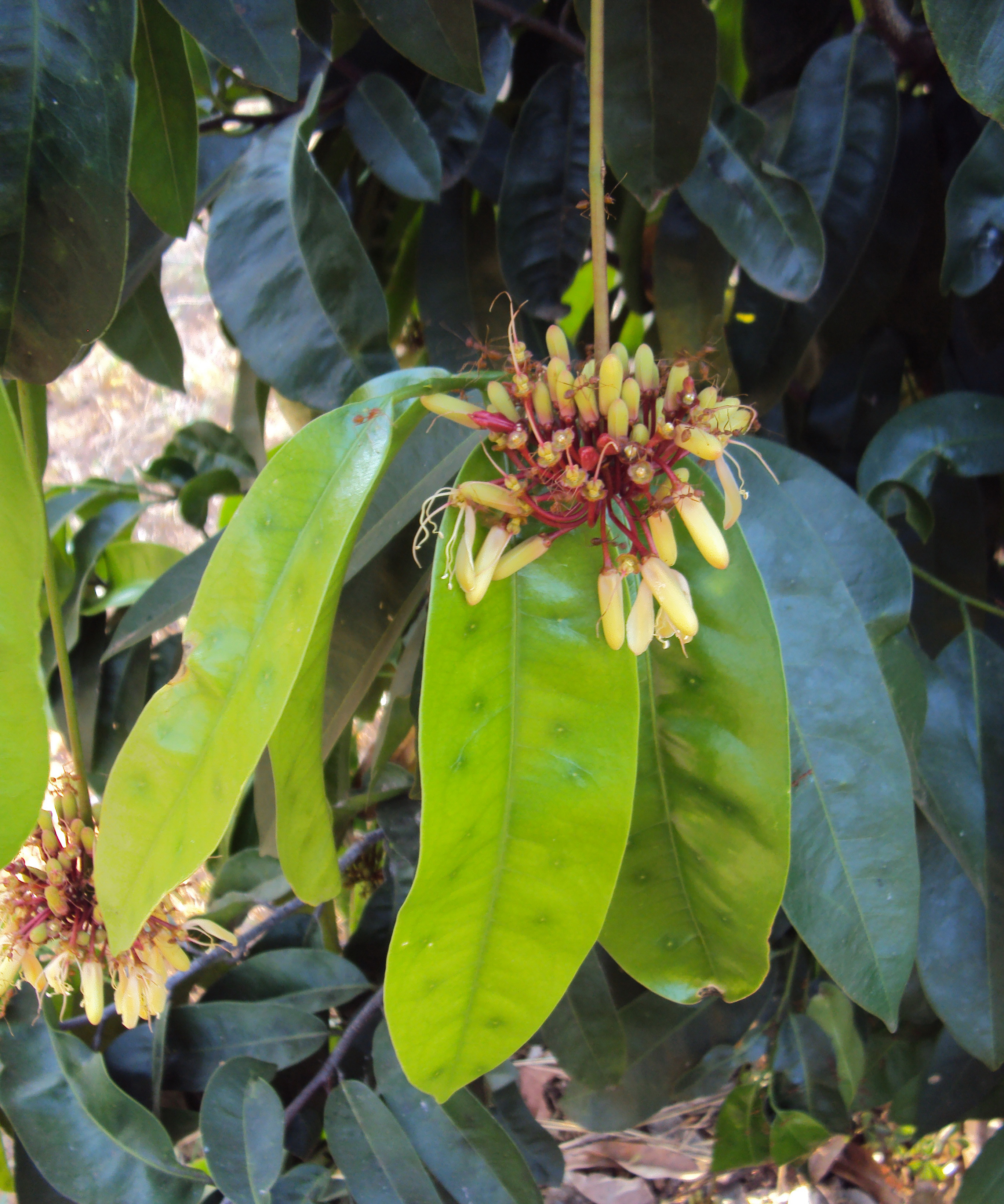 Quassia indica